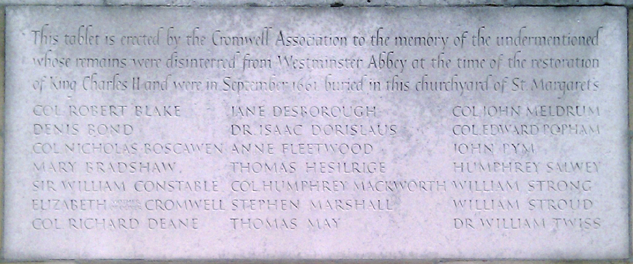 Memorial to the 21 Parliamentarians disinterred from Westminster Abbey and reburied in the churchyard of St Margaret's, Westminster in September 1661 following the Restoration